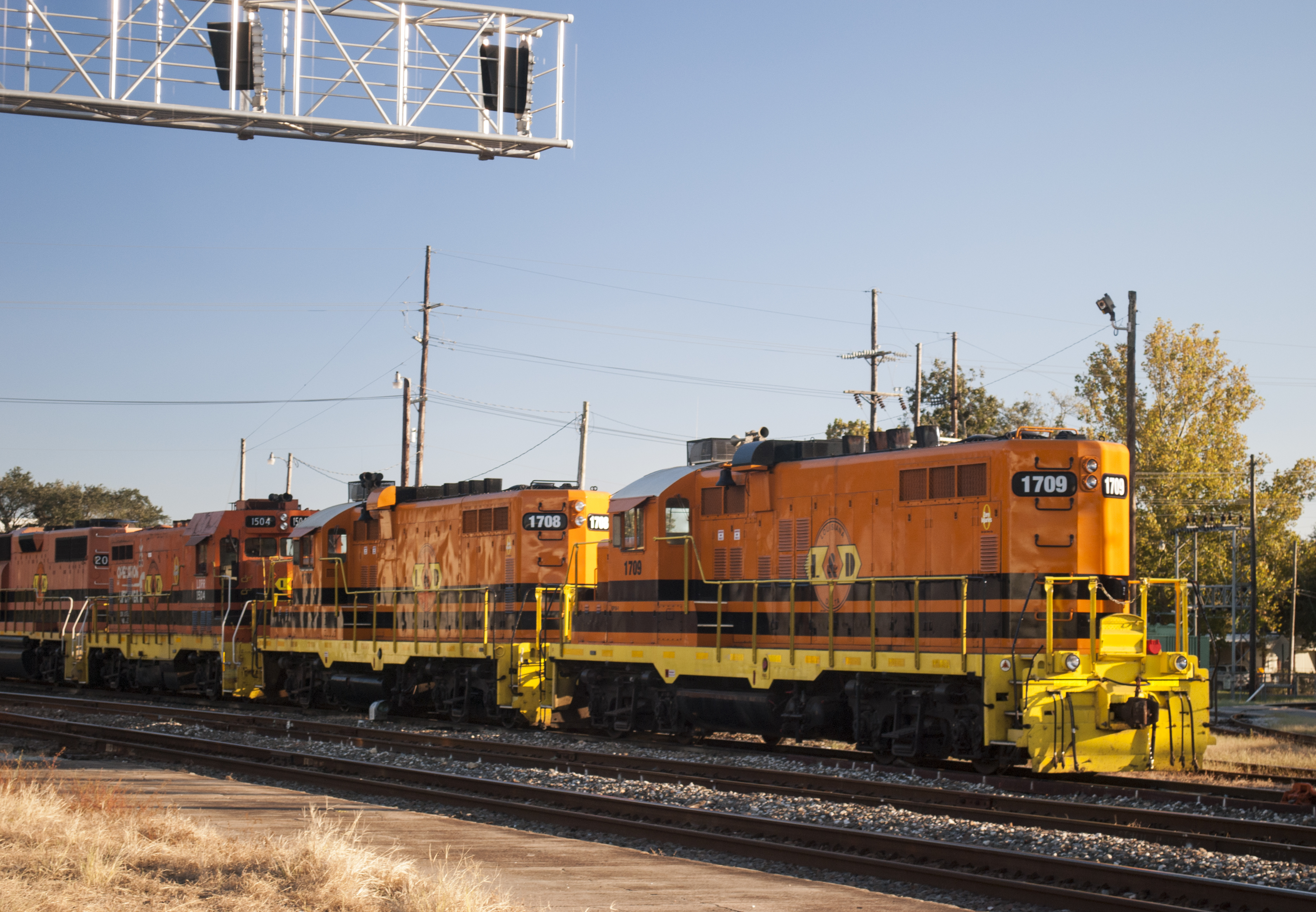 Southern Pacific Railroad Depot, 402 W. Washington New Iberia